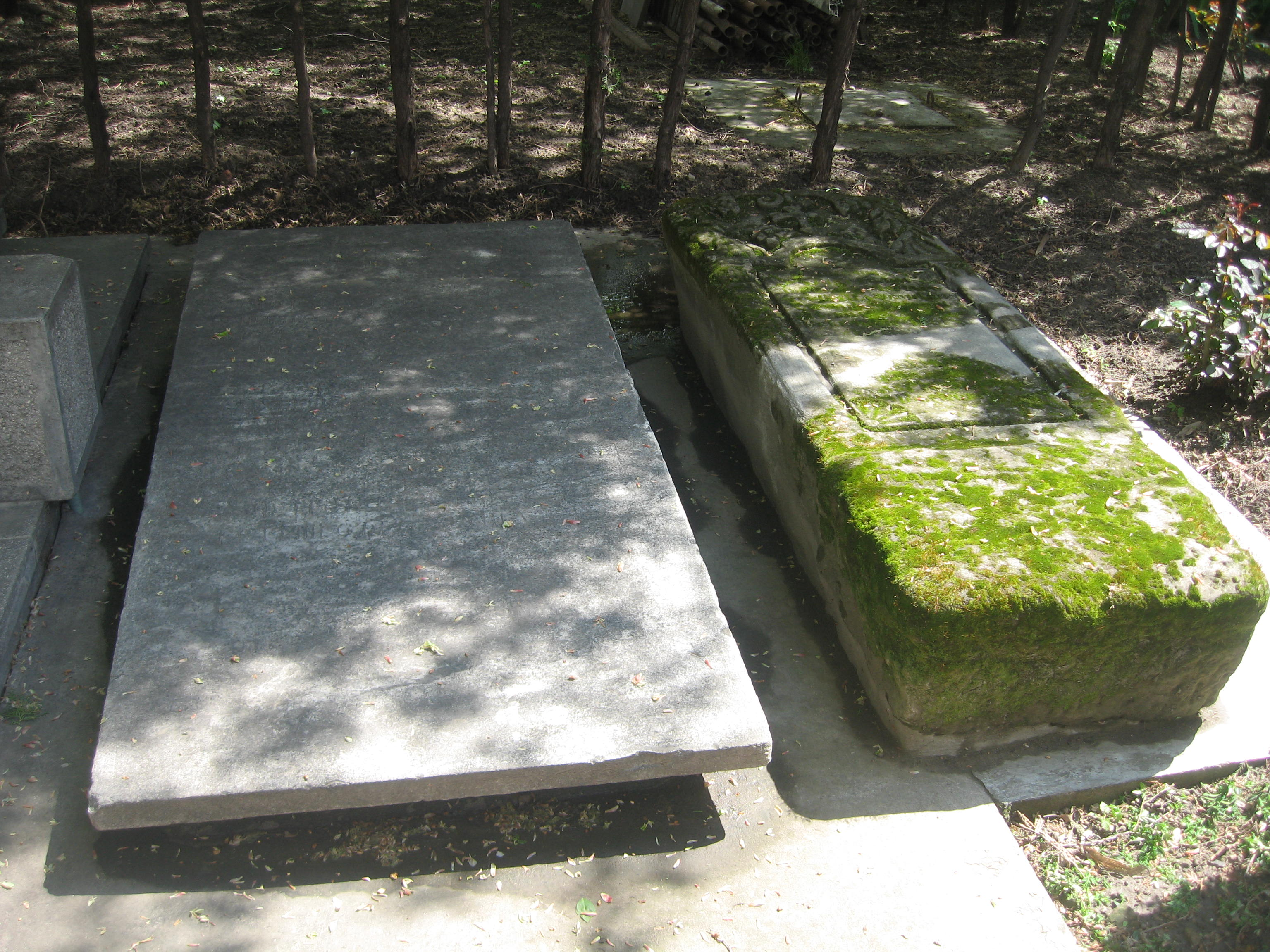 Barnovschi Church, Iași